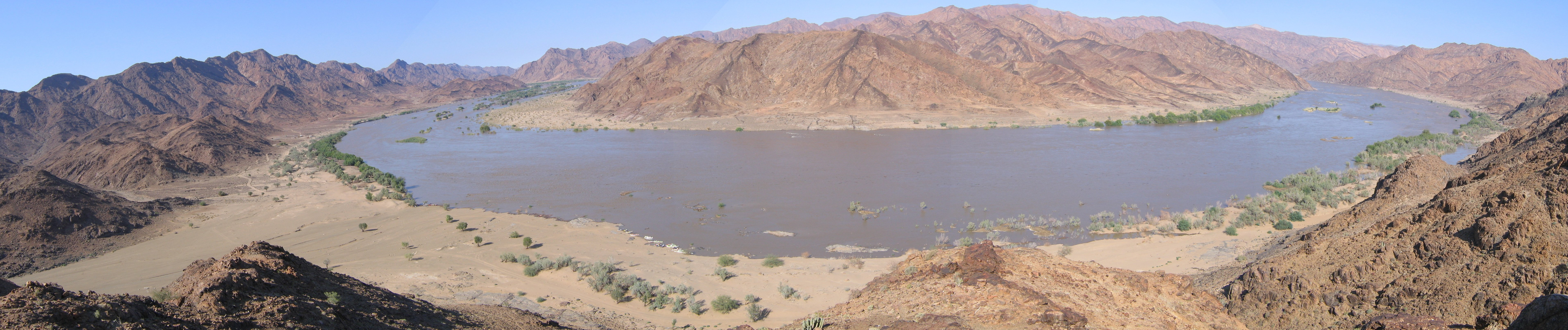 Panorama (stitched from 5 images) of the Orange River in flood. It forms part of the border between South Africa and Namibia. Stitched using hugin.